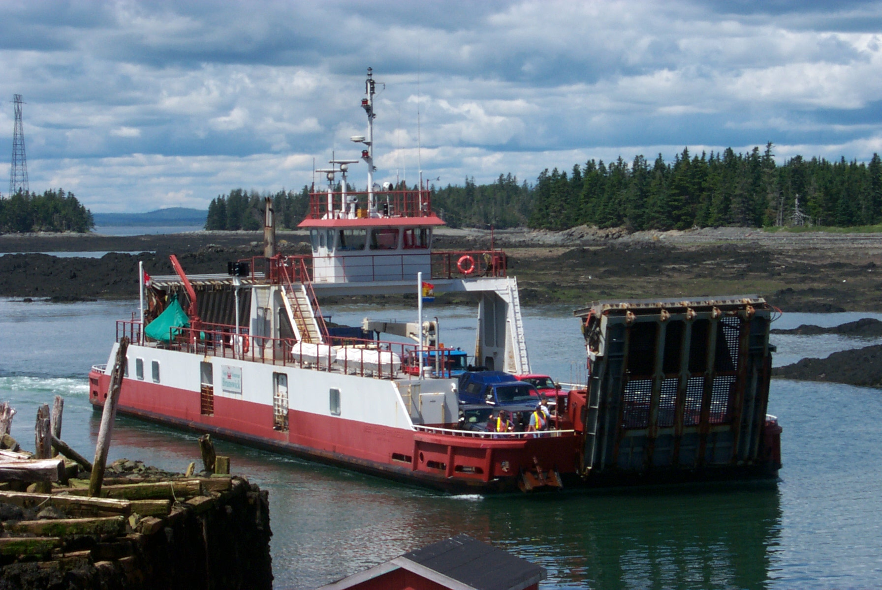 The Deer Island ferry, Deer Island, New Brunswick, Canada. Photographed by User:Pburka, 2001.